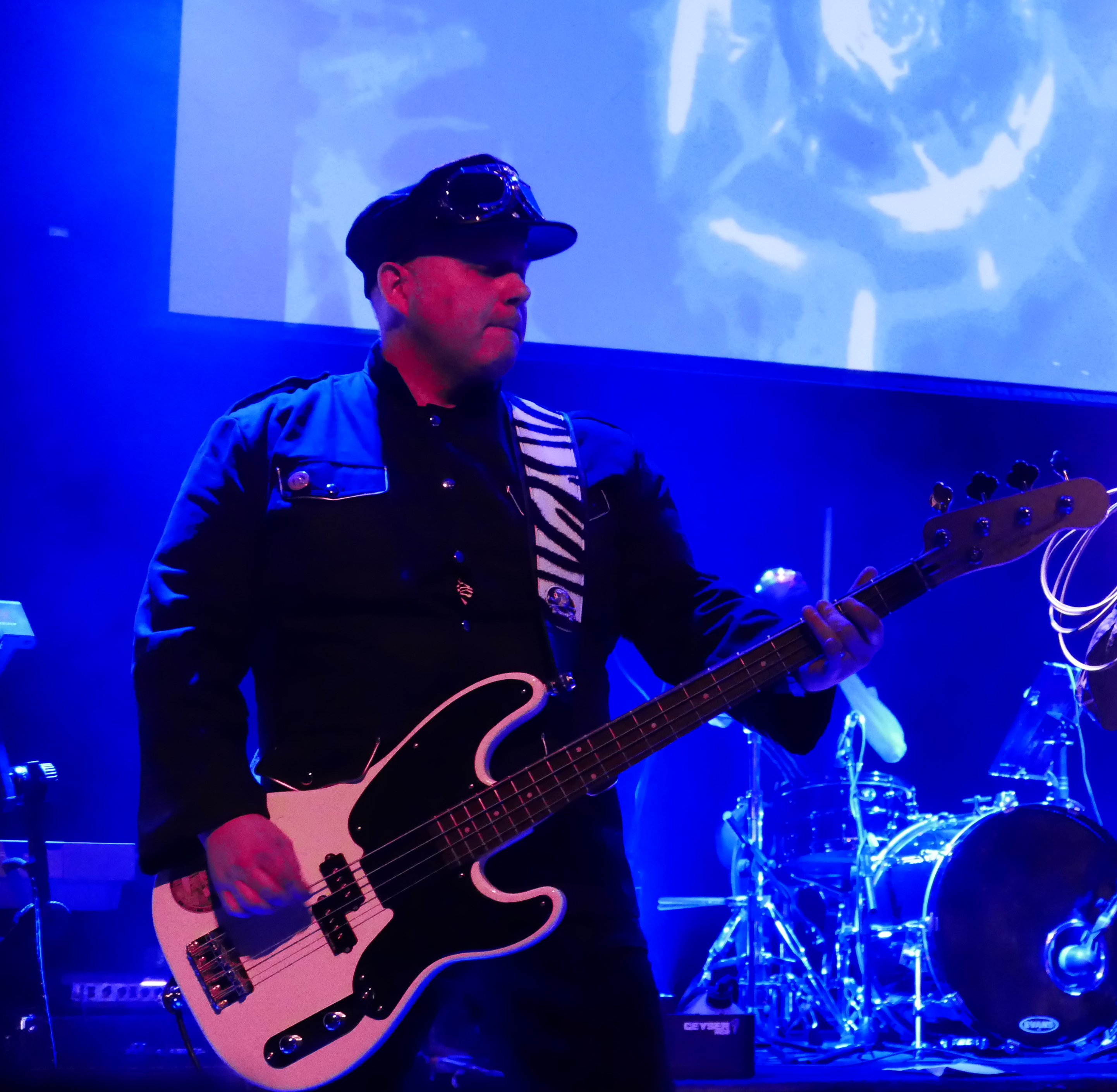 Ade of Naked Lunch with bass at o2 Islington 7 March 2015